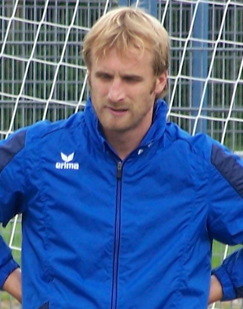 Daniel Bierofka, TSV 1860 München, Training Grünwalder Straße